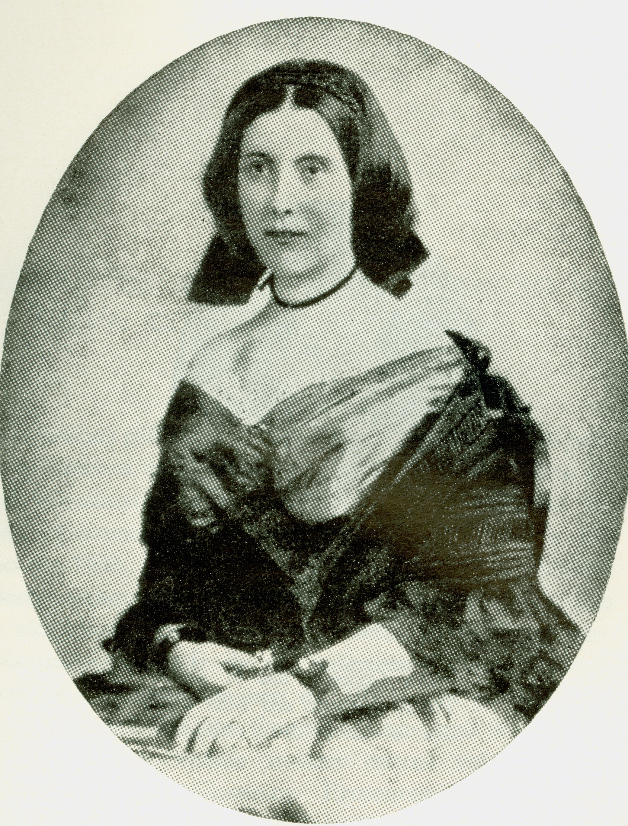 D. Helena Armstrong Mitchell de Paiva Couceiro